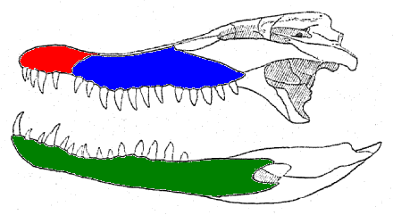 Skeleton of Crocodyle. Boulenger,GA 1890.The fauna of British India including Ceylon and Burma. Reptilia and Batrachia. Taylor and Francis